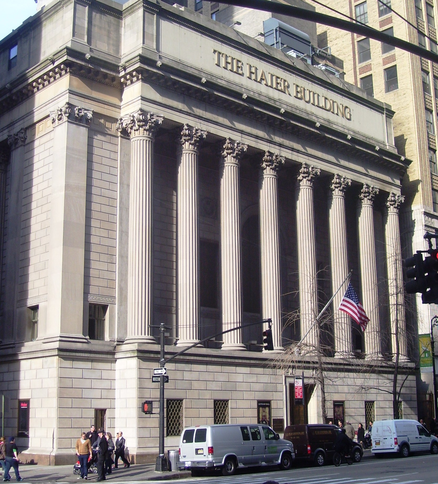 The Greenwich Savings Bank Building at 1352-62 Broadway between East 36th and 37th Street in Midtown Manhattan, New York City was built in 1922-24 and was designed by York & Sawyer in the Classical Revival style, with Corinthian columns on three sides of the trapezoidal structure. The interior features more Corinthian columns around an elliptical rotunda with a central skylight. Since 2002, the building has been the New York headquarters of Haier, with several of the building's large historic rooms used for events, operating as Gotham Hall. Both the exterior and the first floor interior are designated NYC landmarks. (Sources: Guide to NYC Landmarks (4th ed.) and AIA Guide to NYC (5th ed.))